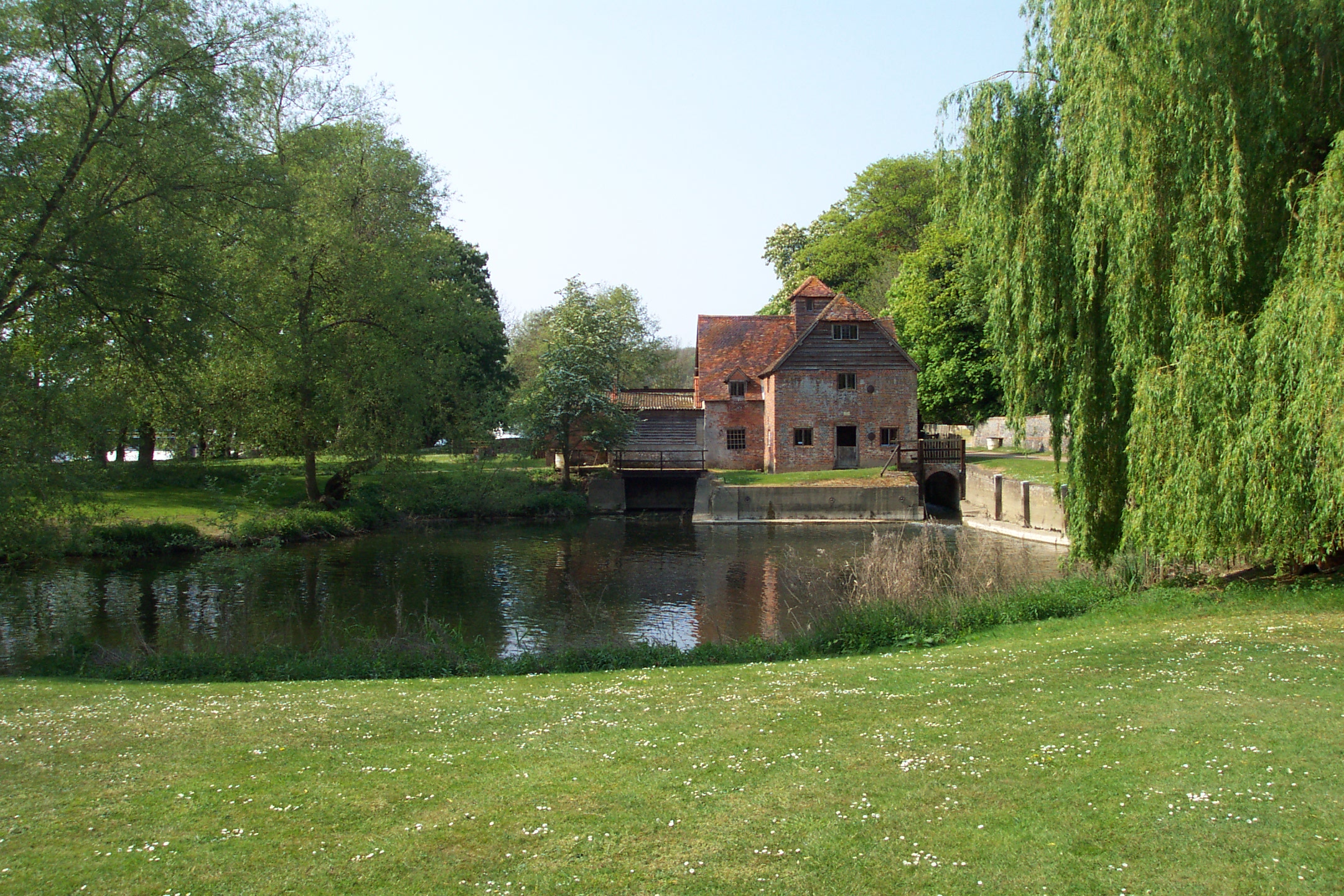 Mapledurham Watermill, Mapledurham, Oxfordshire, England. For more information, see Mapledurham Watermill.